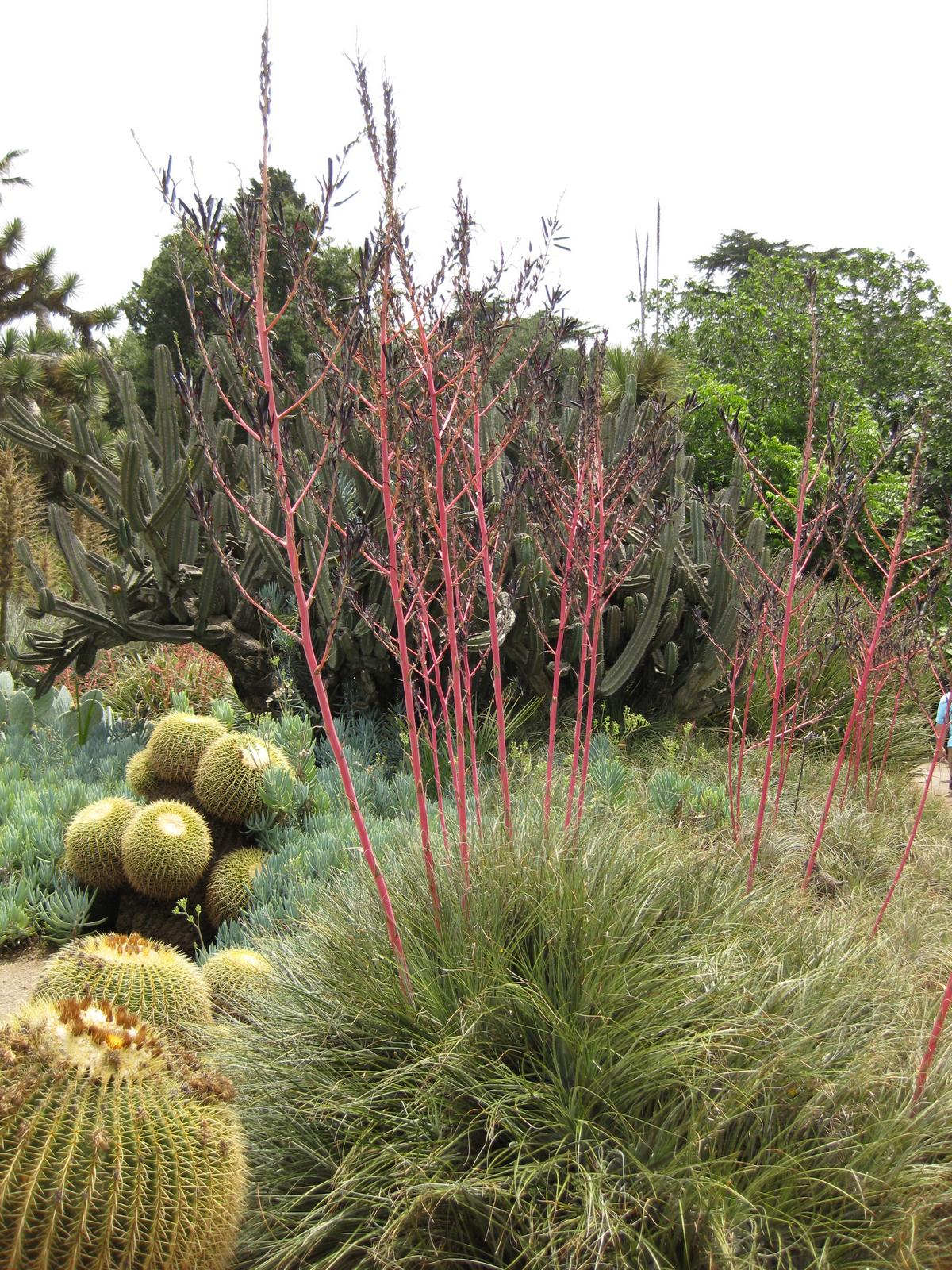 Photographed at Huntington Gardens (Los Angeles) in June